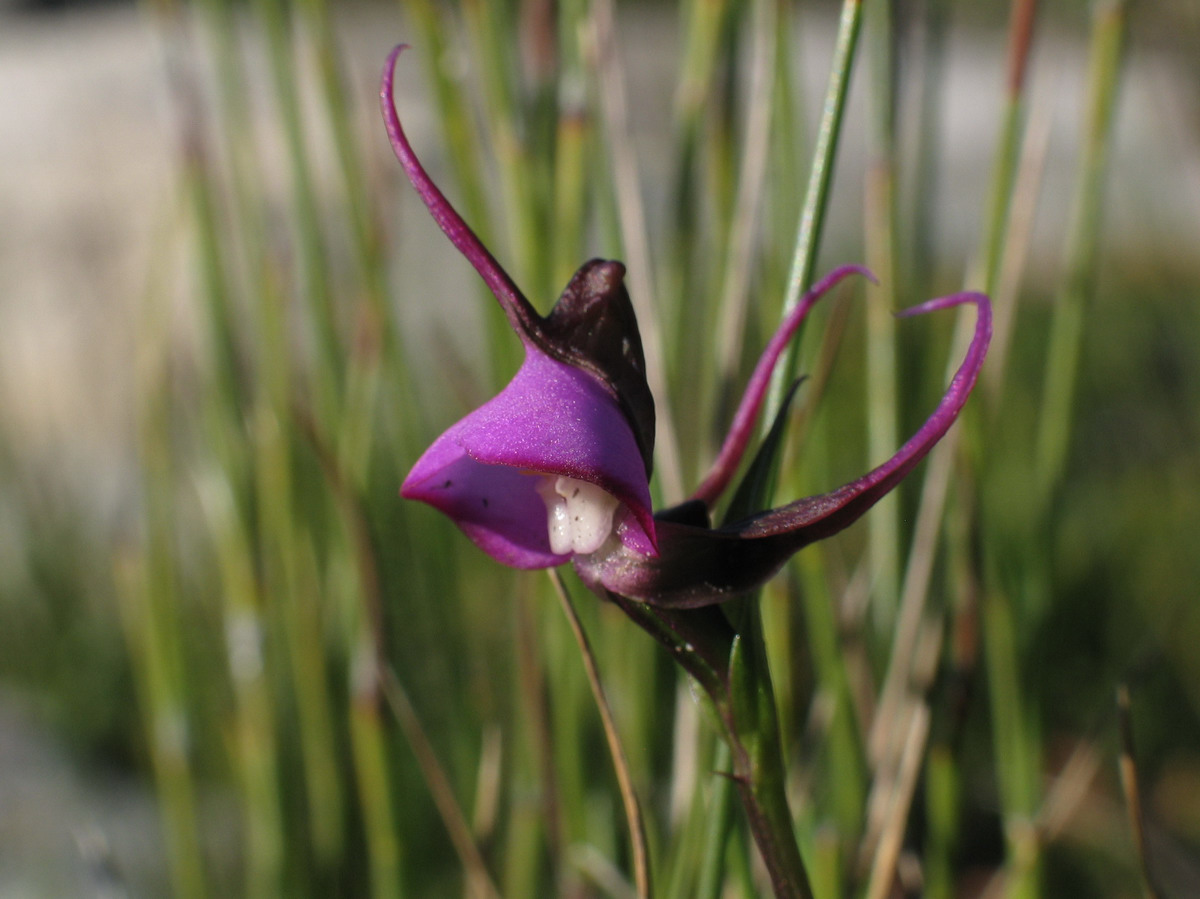 Disperis capensis, Table Mountain, South Africa